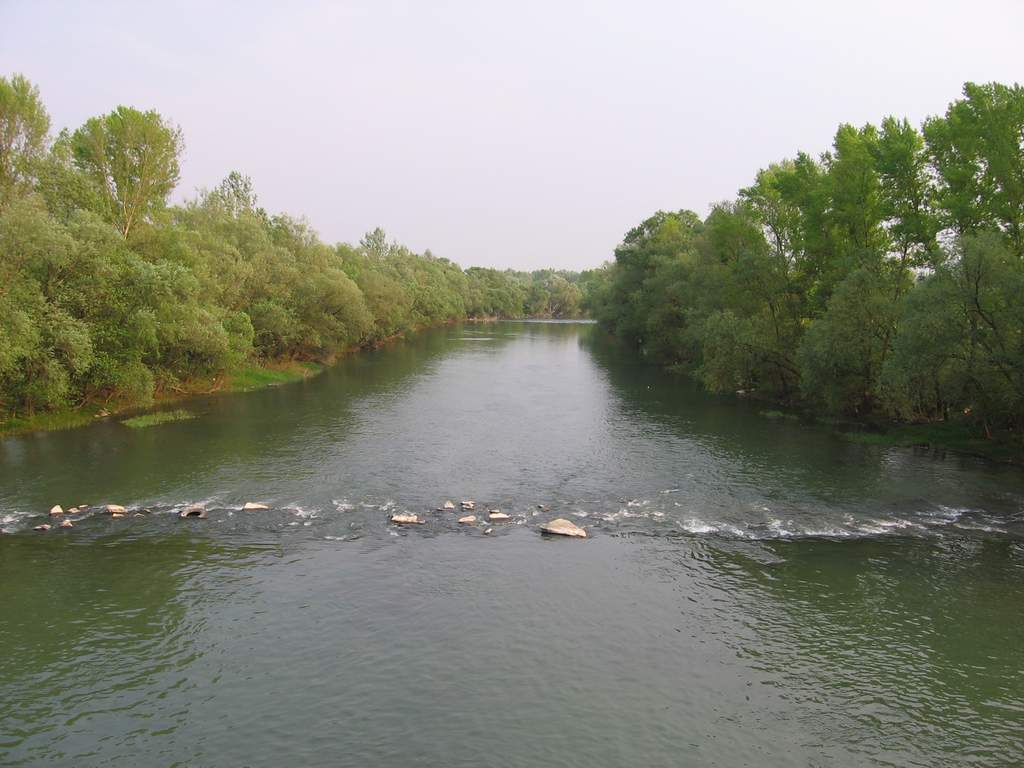 River Laborec at Strazske - view southwards.